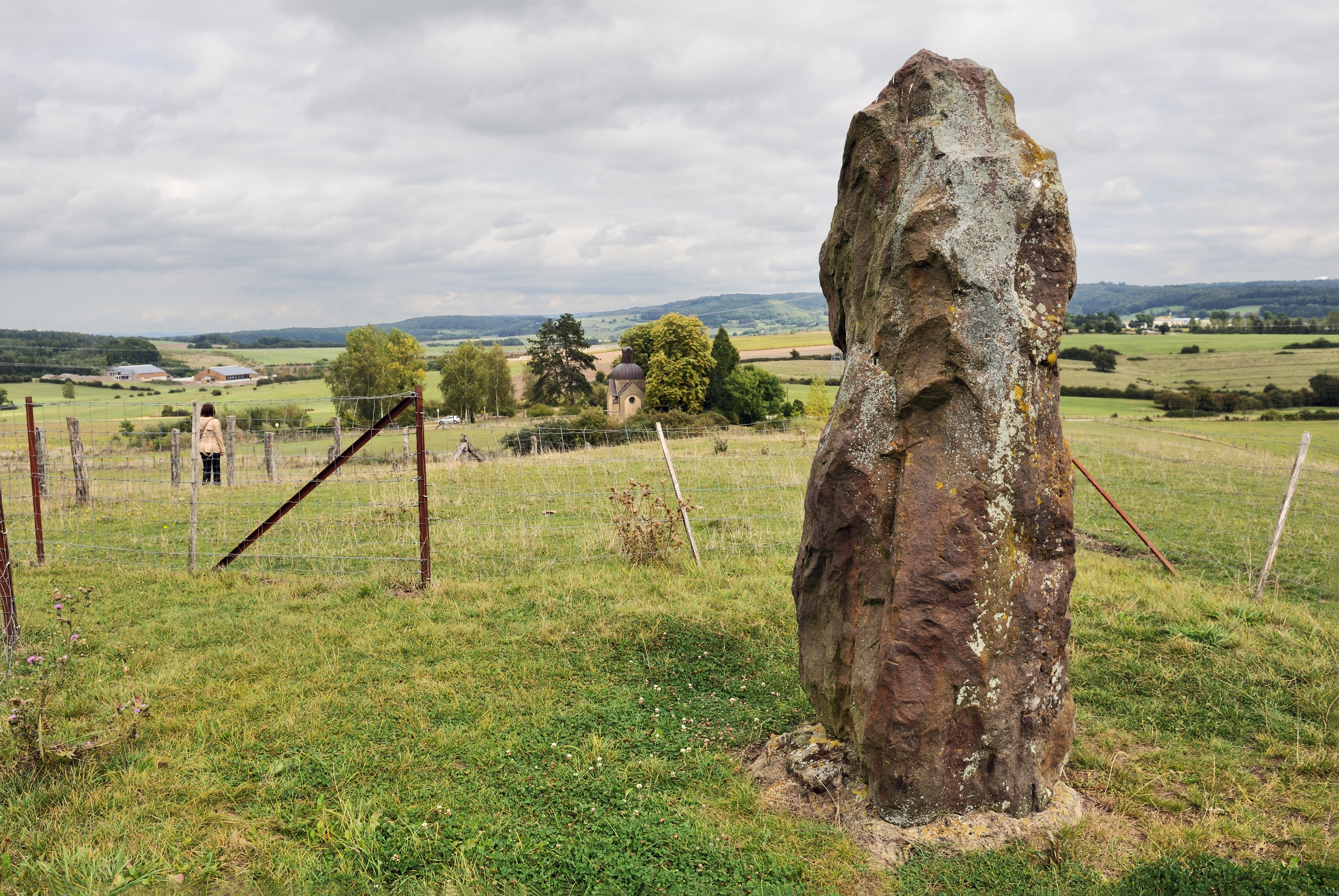 Menhir and chapel at Eenelter in Reckange/Mersch, Luxembourg